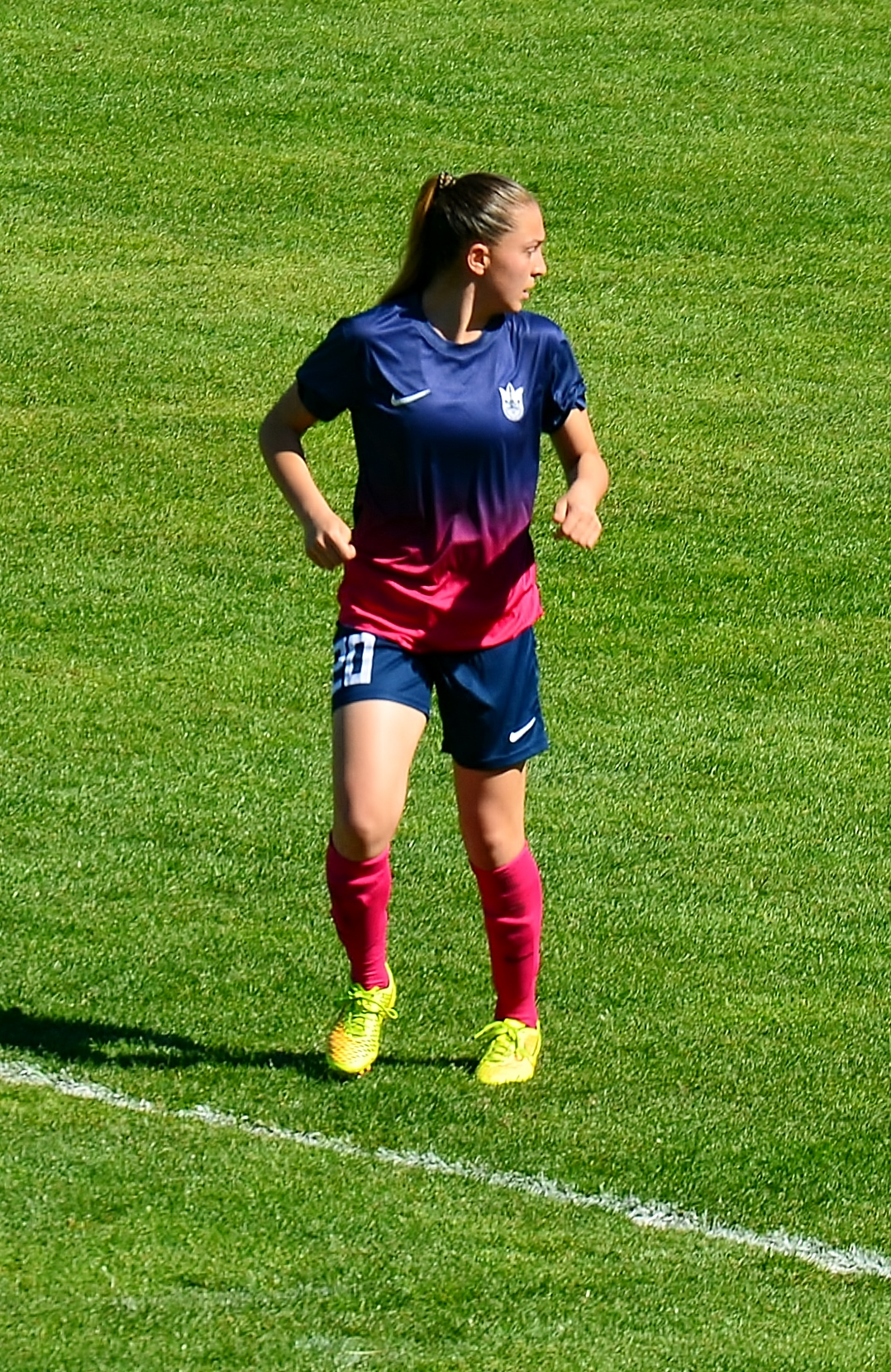 Berna Yeniçeri playing for Konak Belediyespor in the 2014-15 season